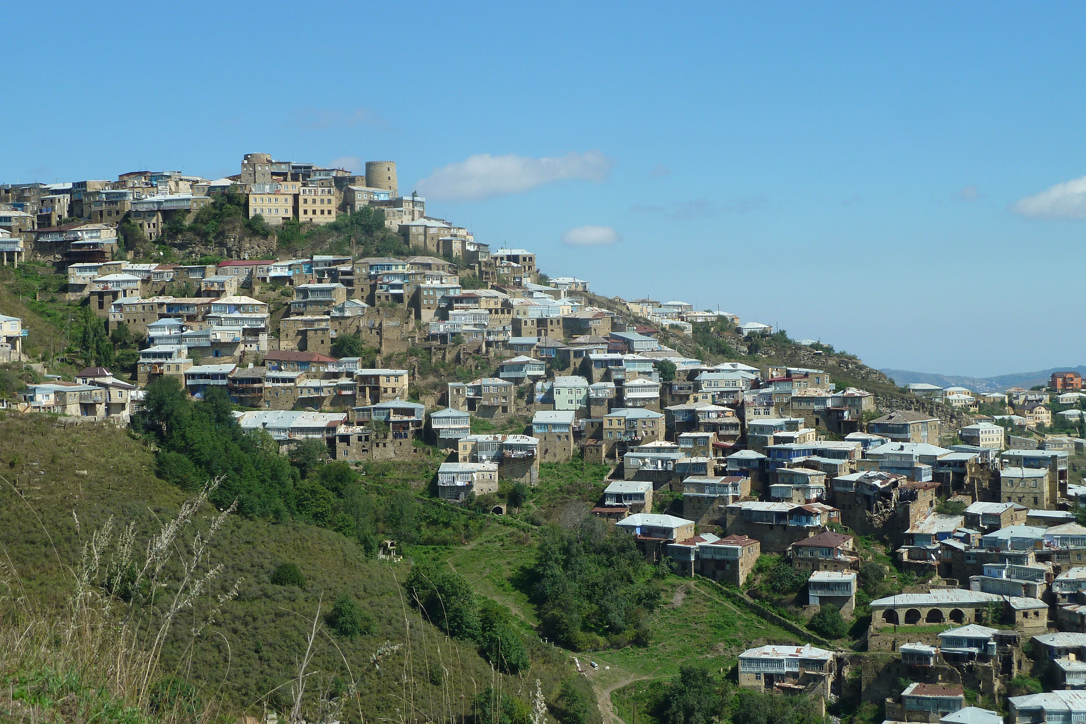 The aul (village) of Kubachi in Dagestan, Southern Russia. View of the older part of the village with it's restored tower.